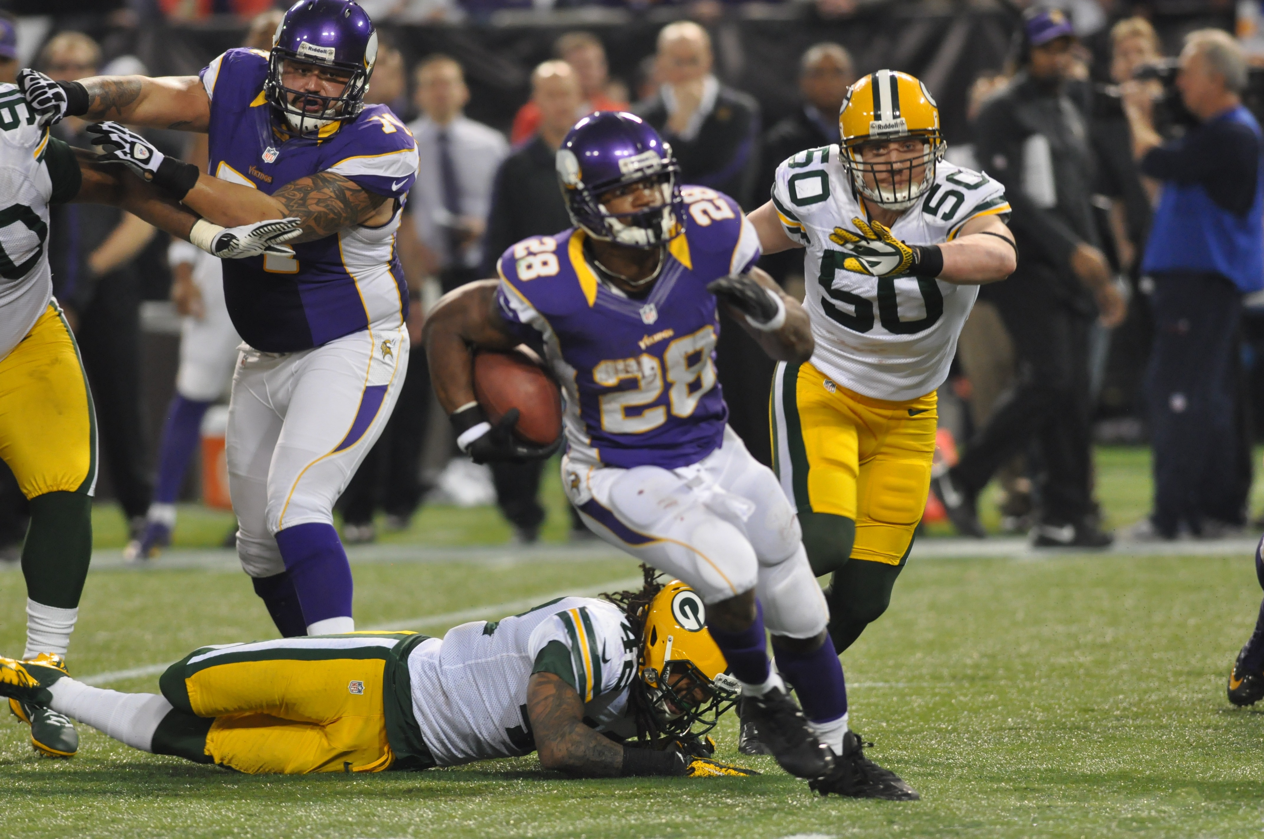 Minnesota Vikings running back Adrian Peterson runs the ball, chased by Green Bay Packers linebacker A. J. Hawk. Packers safety Morgan Burnett is on the ground. Vikings offensive lineman Charlie Johnson is blocking in the background.